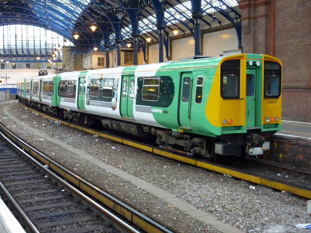 Southern Class 313/2 unit 313205 stands at Brighton waiting to form a service to West Worthing on the West Coastway line. The unit is wearing the Southern livery with Coastway vinyls.